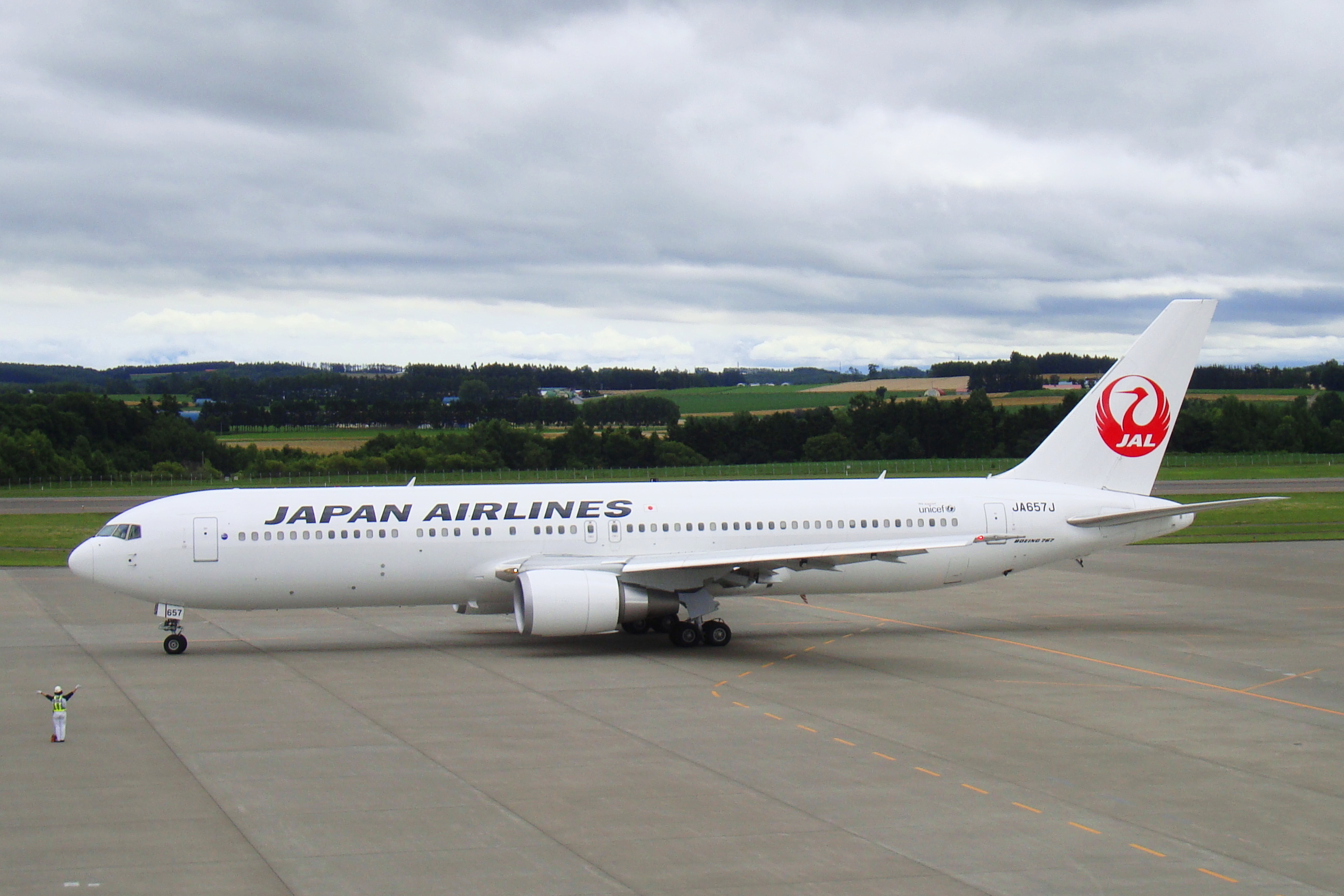 Japan Airlines Boeing 767-300 JA657J